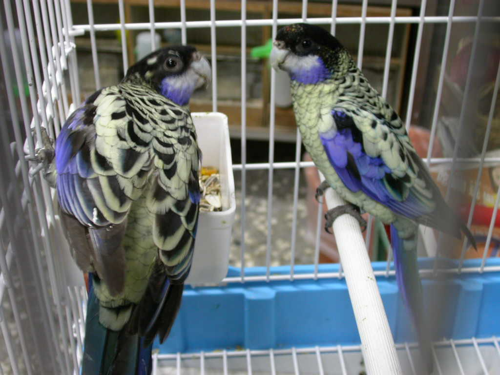 Two Northern Rosellas in a cage.